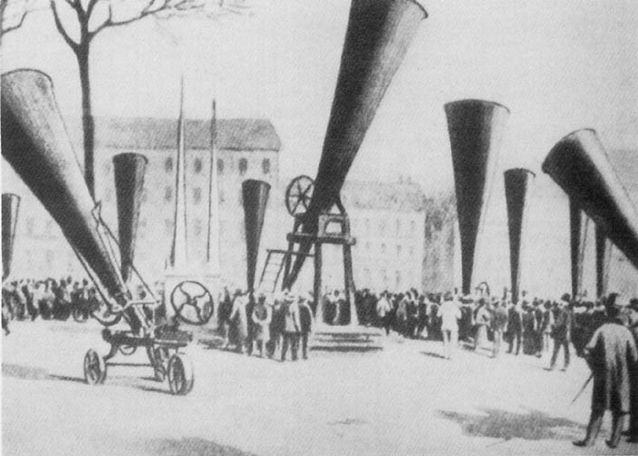 Internation congress on hail shooting